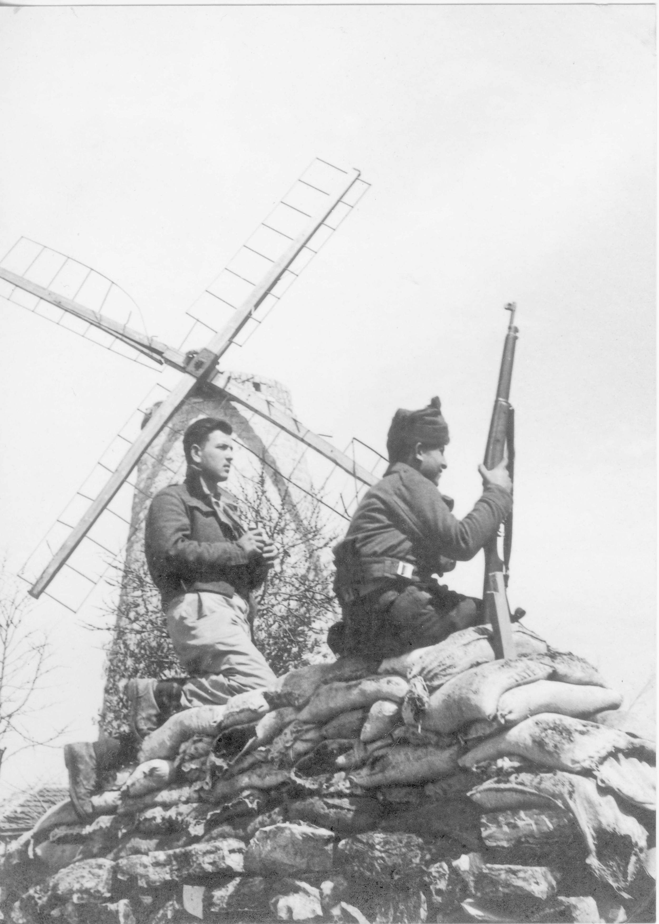 The Palmach, Israel Defense Forces